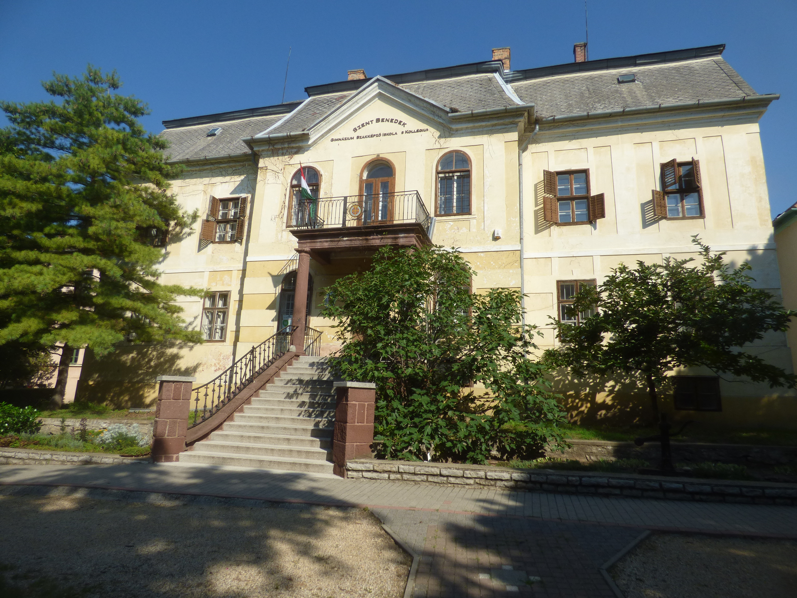 Balatonarács, az egykori Széchényi-kastély